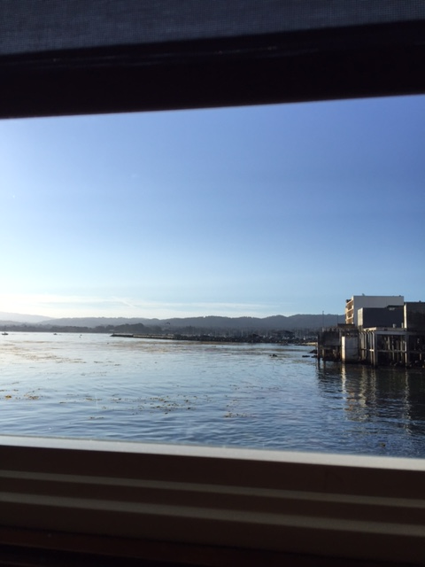 Views from Cannery Row